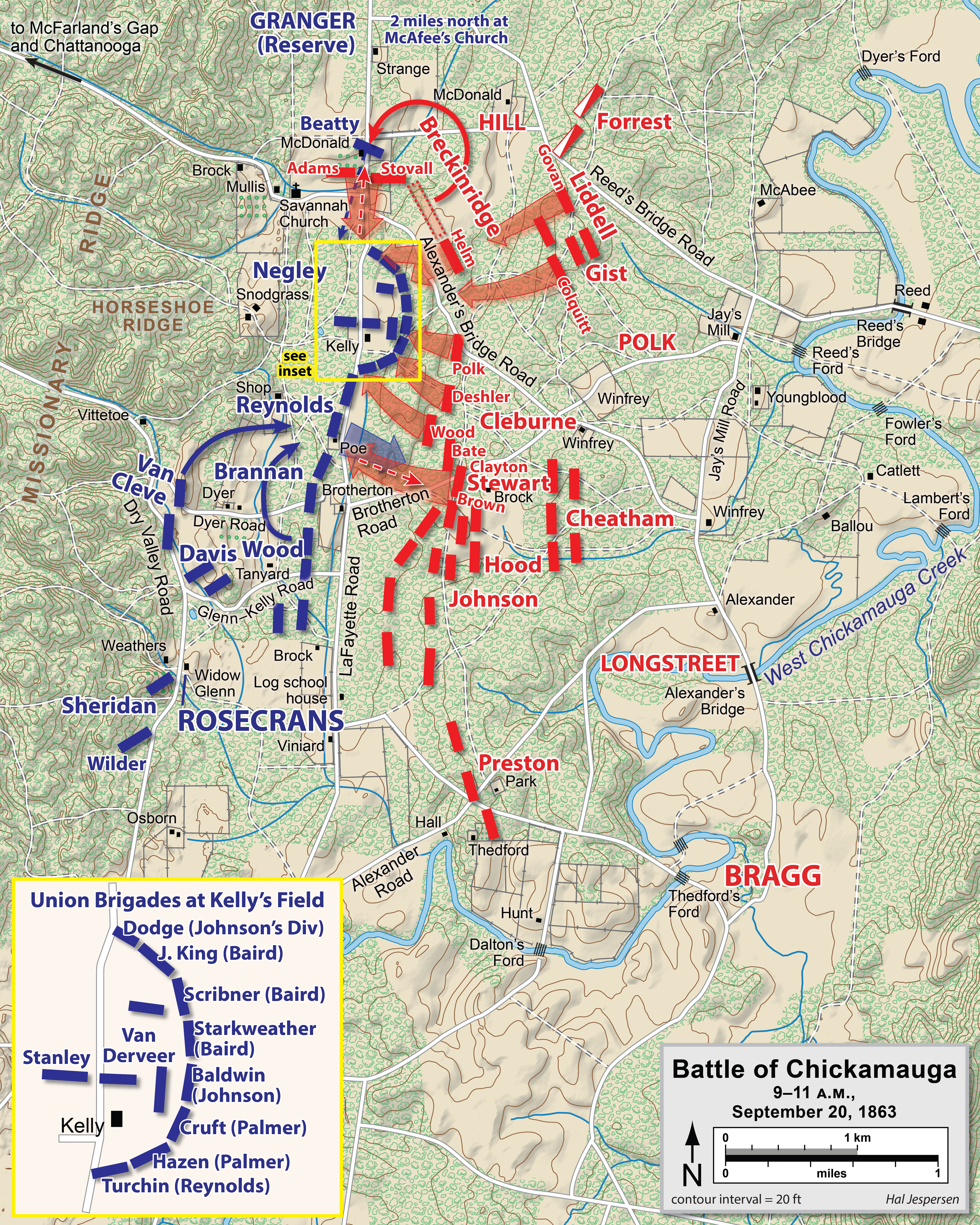 Map of Battle of Chickamauga of the American Civil War, actions on September 20, 1863, part 1. Drawn in Adobe Illustrator CS5 by Hal Jespersen. Graphic source file is available at